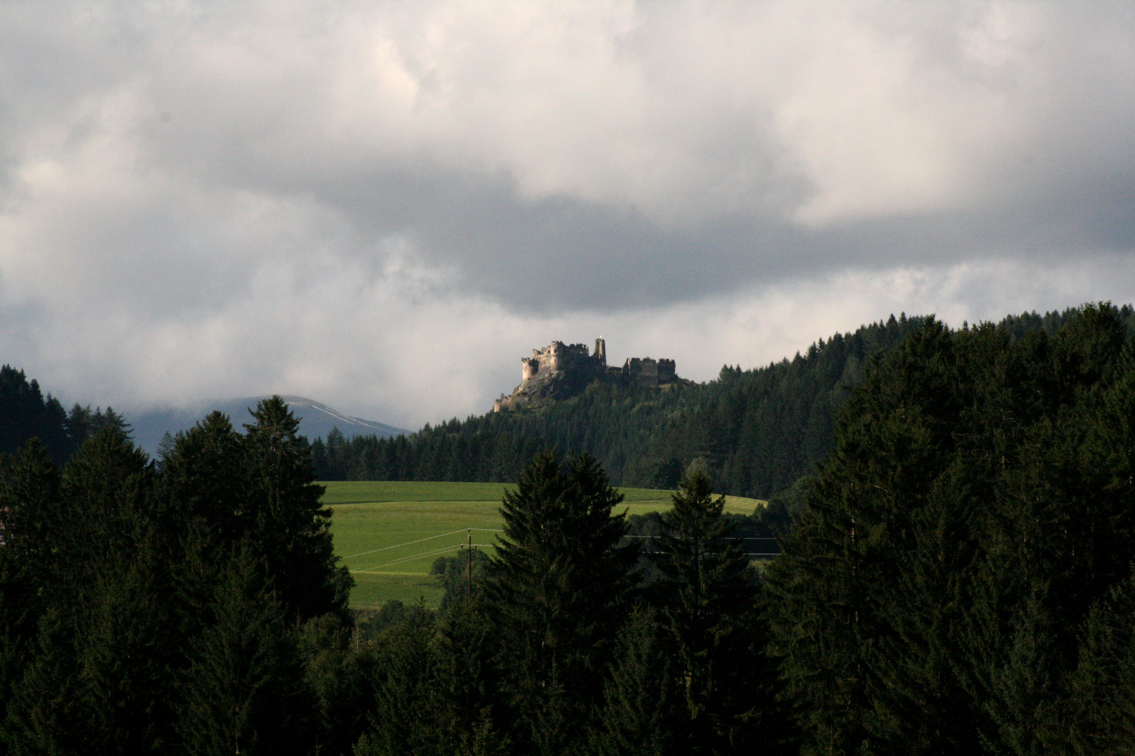 Ruine Steinschloss ("Steinschloss" ruin) in Mariahof, Styria, Austria